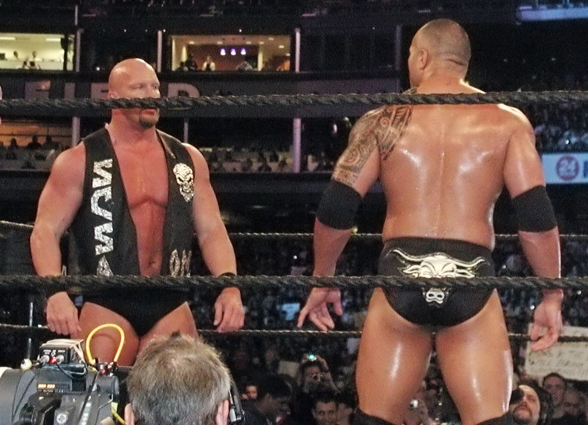 The Rock and Stone Cold Steve Austin at WrestleMania XIX at Safeco Field in Seattle, WA on March 30, 2003.